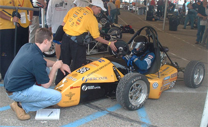 Car number 96 from Universidad Simon Bolivar during the Technical Inspection. This picture was shot by Juan Espinoza during the 2005 Formula SAE Competition in Pontiac - MI.